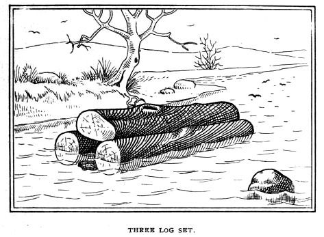 Diagram of 3-Log Set for mink.